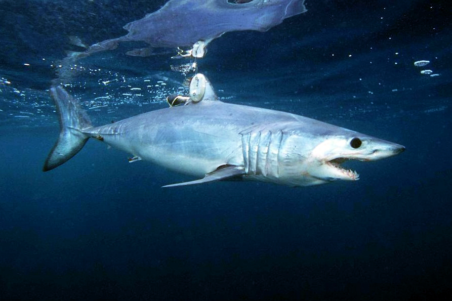 Shortfin mako shark (Isurus oxyrinchus)